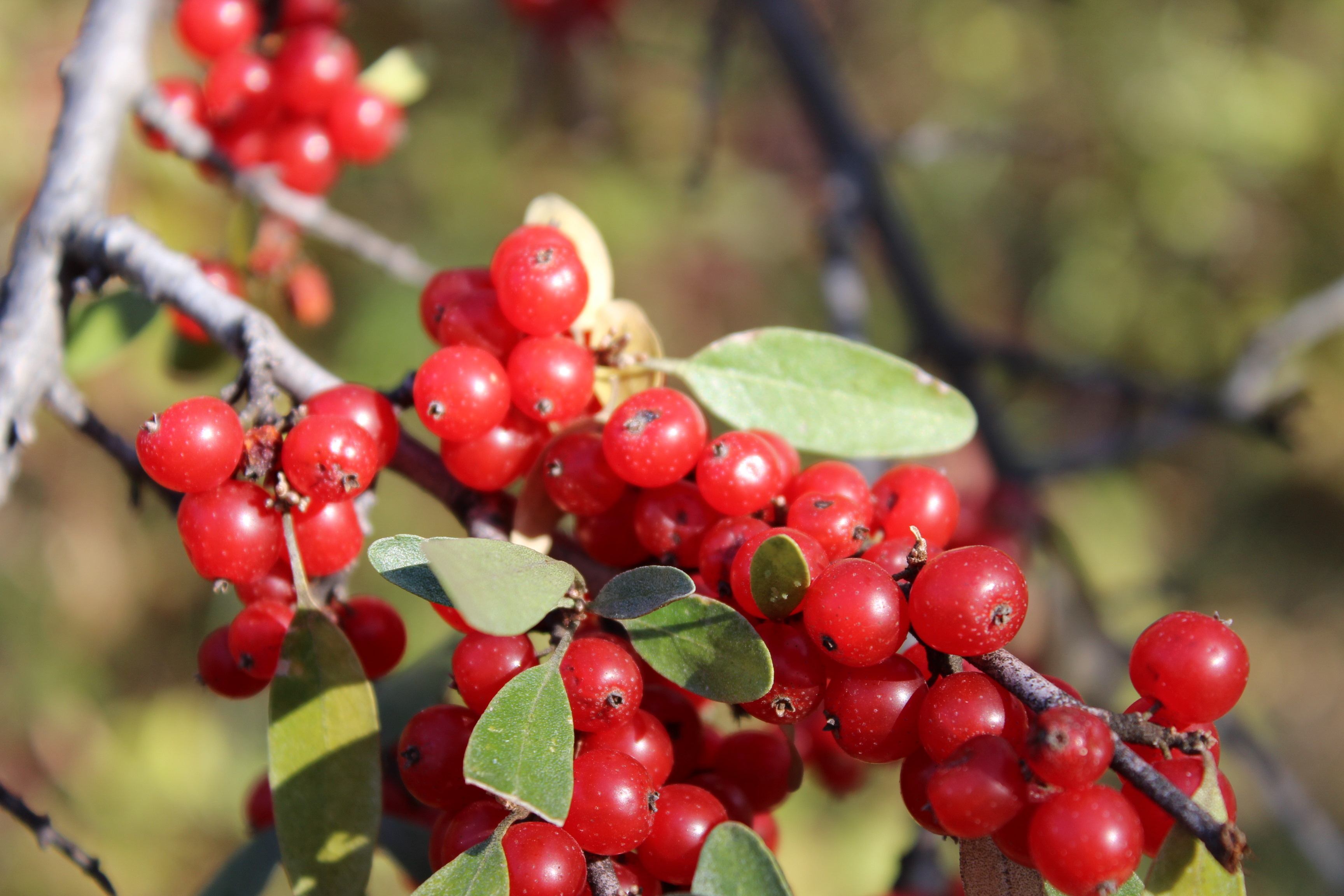 Shepherdia argentea